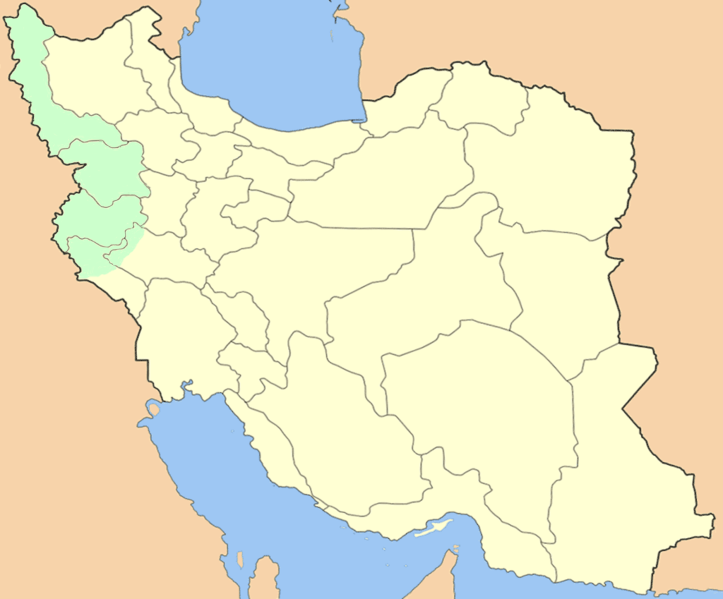 Blank locator map (orthographic projection) of Iranian Kurdistan.